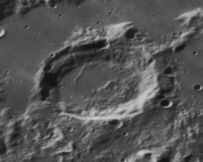 Oblique view of Endymion B crater (northeast of Endymion), facing west, on the moon.